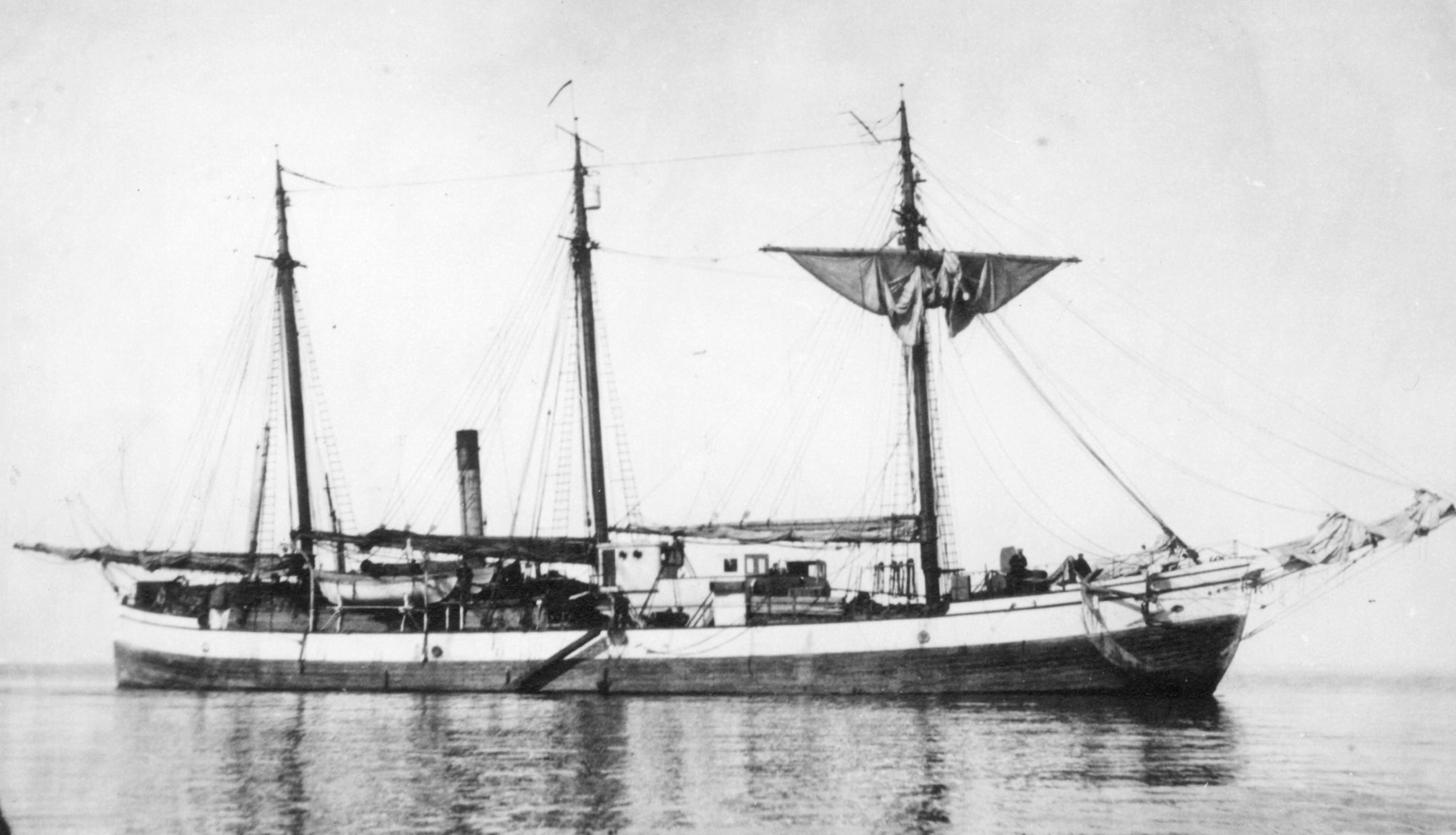 CGS Arctic at anchor in Pond Inlet, 1923. Original caption: "Caption: "Arctic" at anchor, Pond Inlet 1923 340.93 Kb 10.00 x 5.73 inches Credit: YK Museum Soc./NWT Archives/N-1979-006-0001"